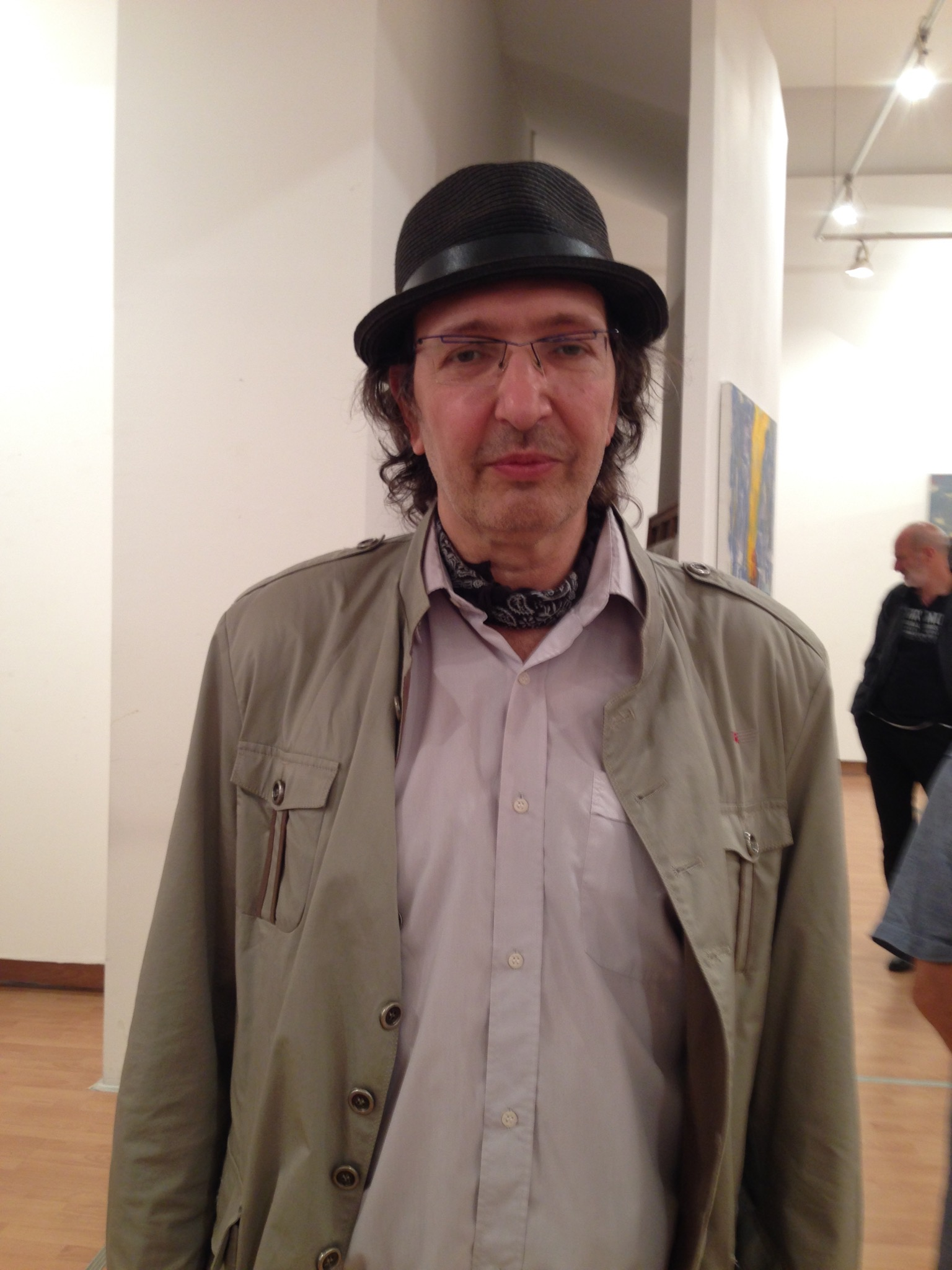 Nikola Žigon, Painter from Serbia. Niš, 23.8.2016.